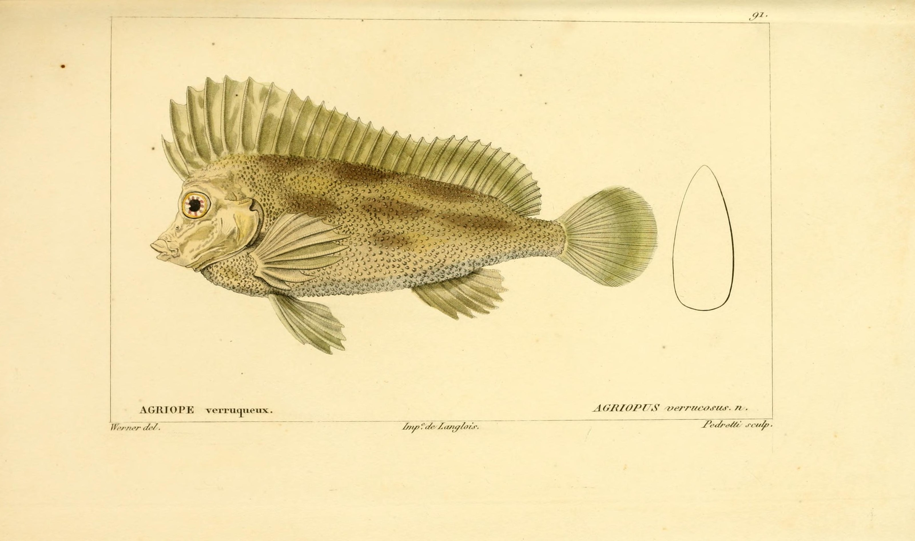 Congiopodus torvus syn. Agriopus verrucosus